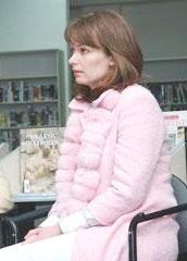 First Ladies Laura Bush and Sandra Roelofs talk to students in the American Academy library.